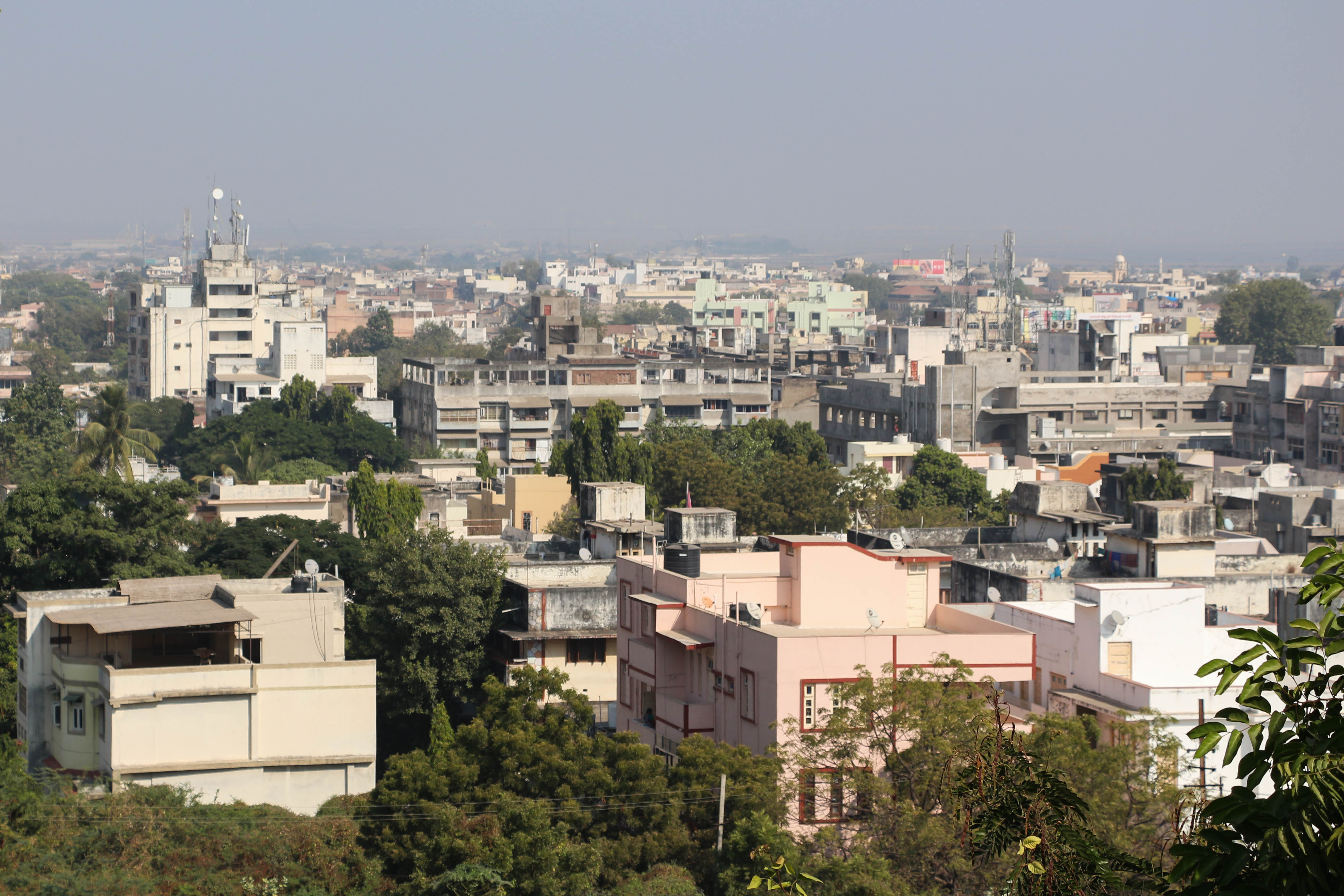 View of Bhavnagar from the Takhteshwar Temple, India